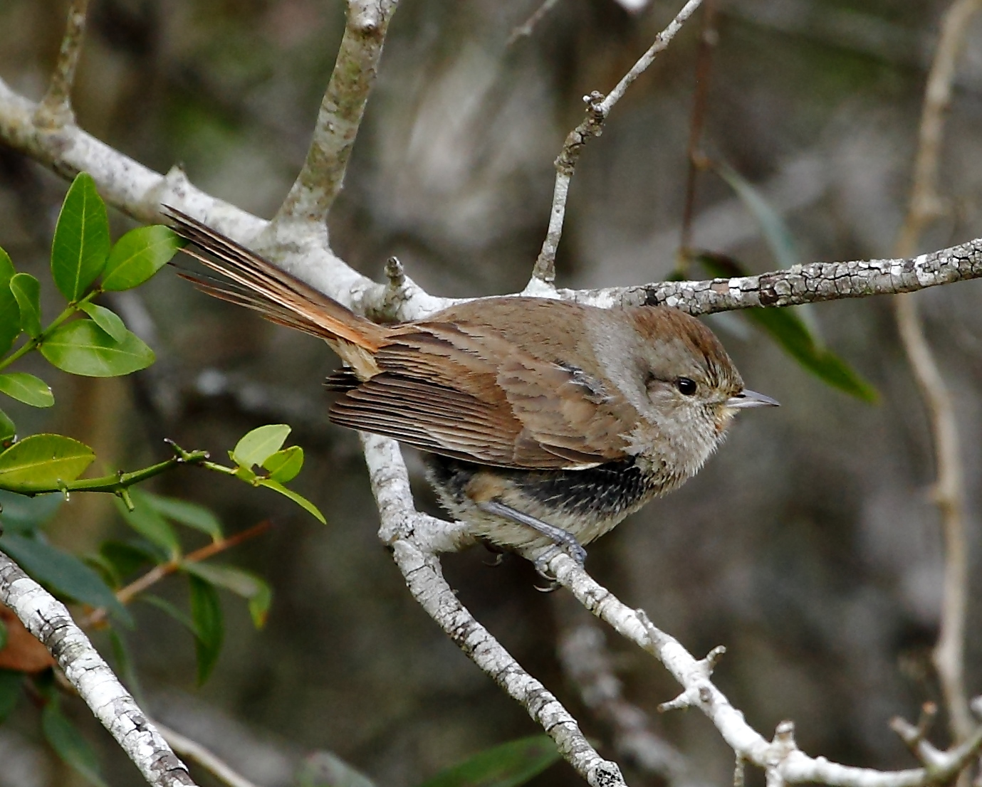 Short-billed canastero at Esteros de Farrapos National Park, Uruguay